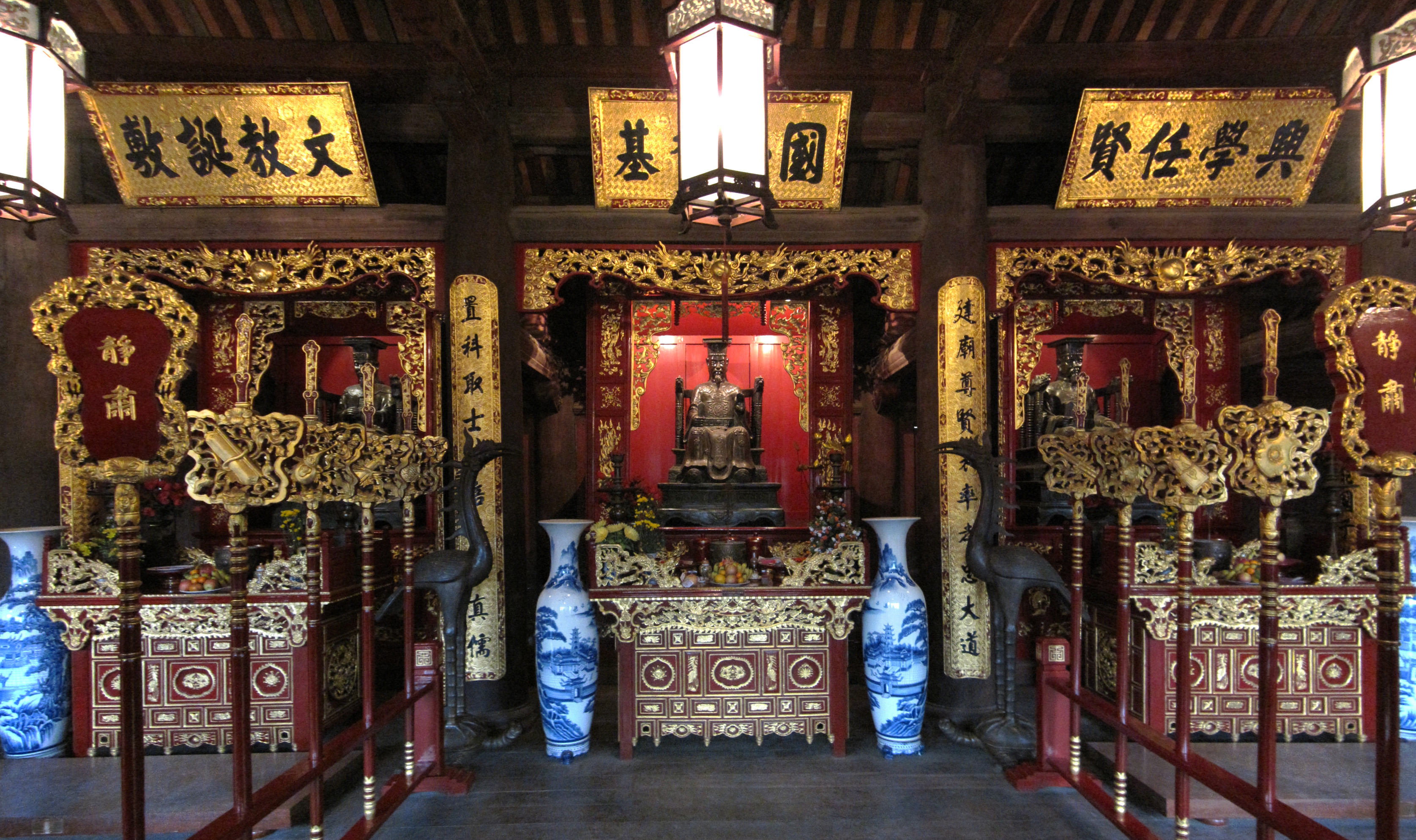 Altar to Chu An in the Temple of Literature, Hanoi.